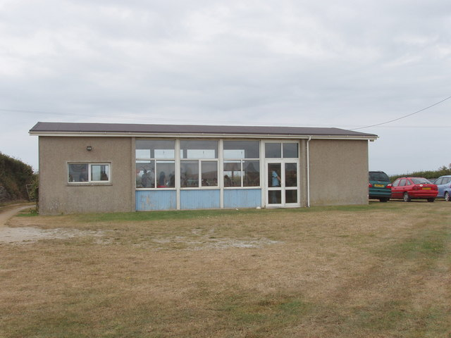 St Eval Parish Hall. Next to Old MacDonald's Farm, near Porthcothan. We found it an excellent place for a family party, with room to park cars and grass behind the hall where children could play. Because the village of St Eval was moved to make way for the airfield during the war, it is away from any village houses.